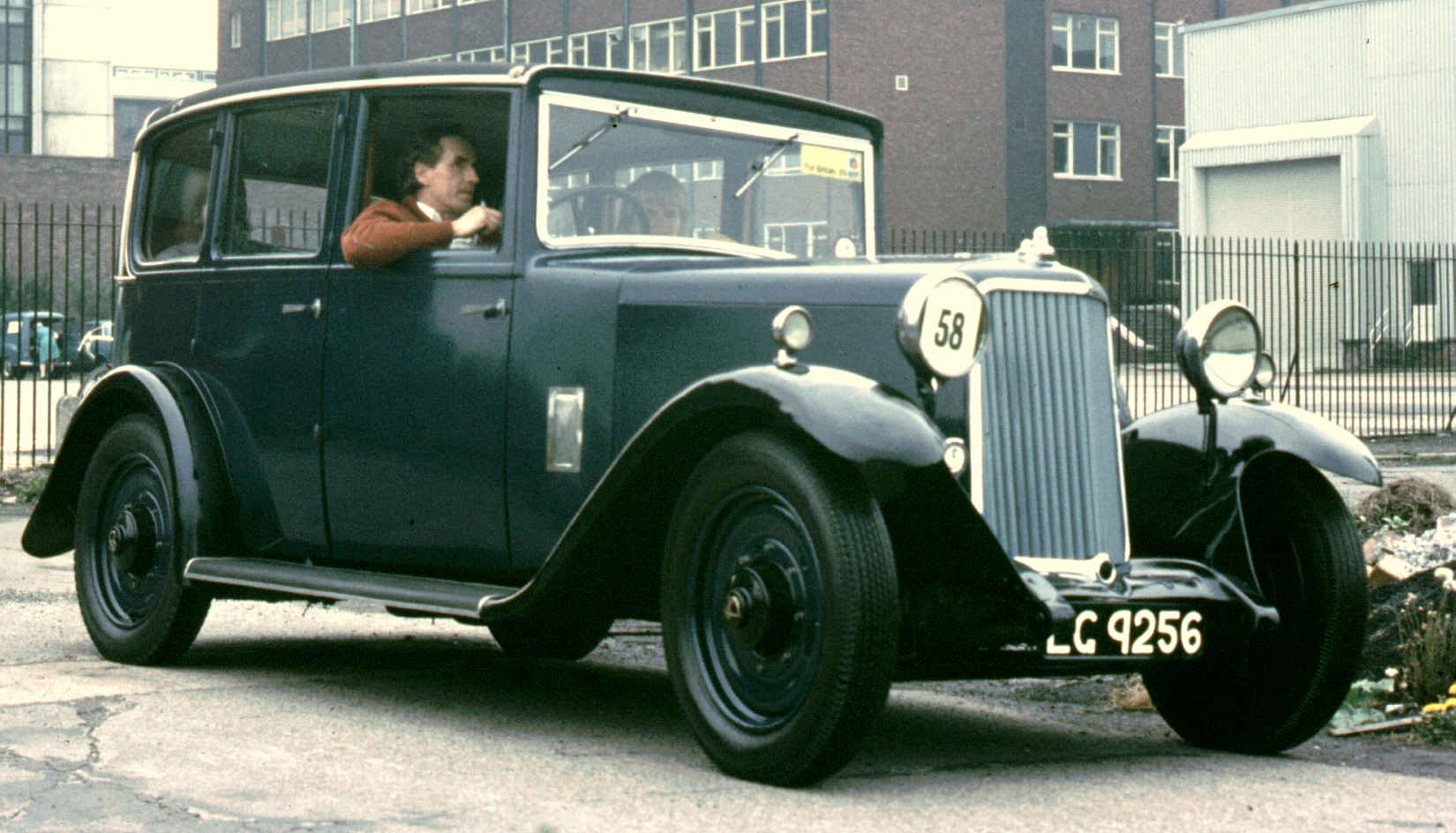 Armstrong Siddeley Long 15 from 1935. Photographed by myself in the 1970's. Scanned from old colour transparency.